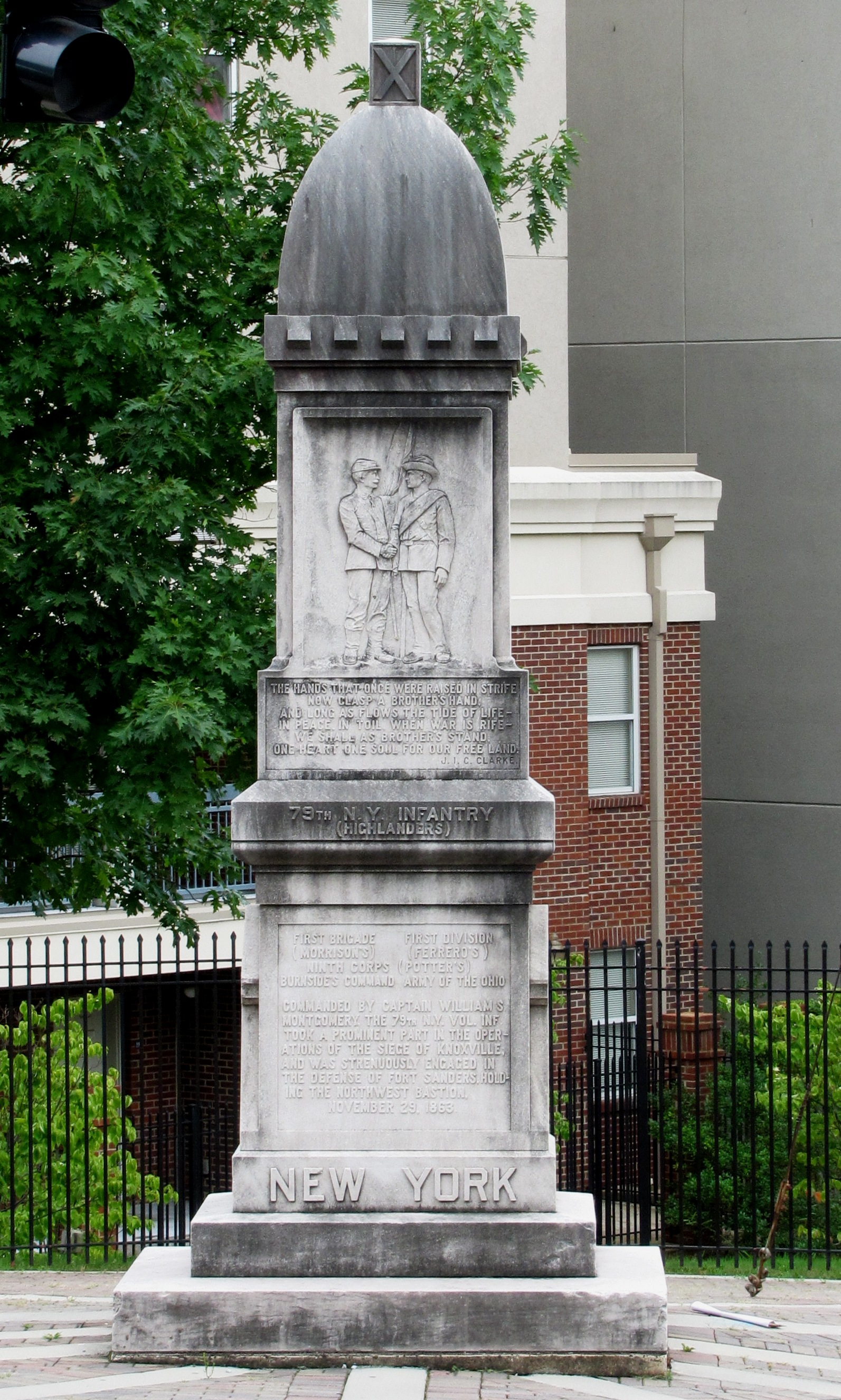 Monument dedicated to the 79th New York Infantry in Knoxville, Tennessee, USA. The 79th played a primary role in holding Fort Sanders against a Confederate charge on the morning of November 29, 1863, at the height of the Civil War. Dedicated in 1918 by the 79th New York Veterans Organization